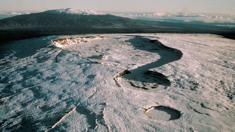 Mokuaweoweo, the summit caldera of Mauna Loa, covered in snow from the air. Big island of Hawaiʻi From USGS publication "Eruptions of Hawaiian Volcaoes" by Robert I. TillingChristina Heliker, and Thomas L. Wright